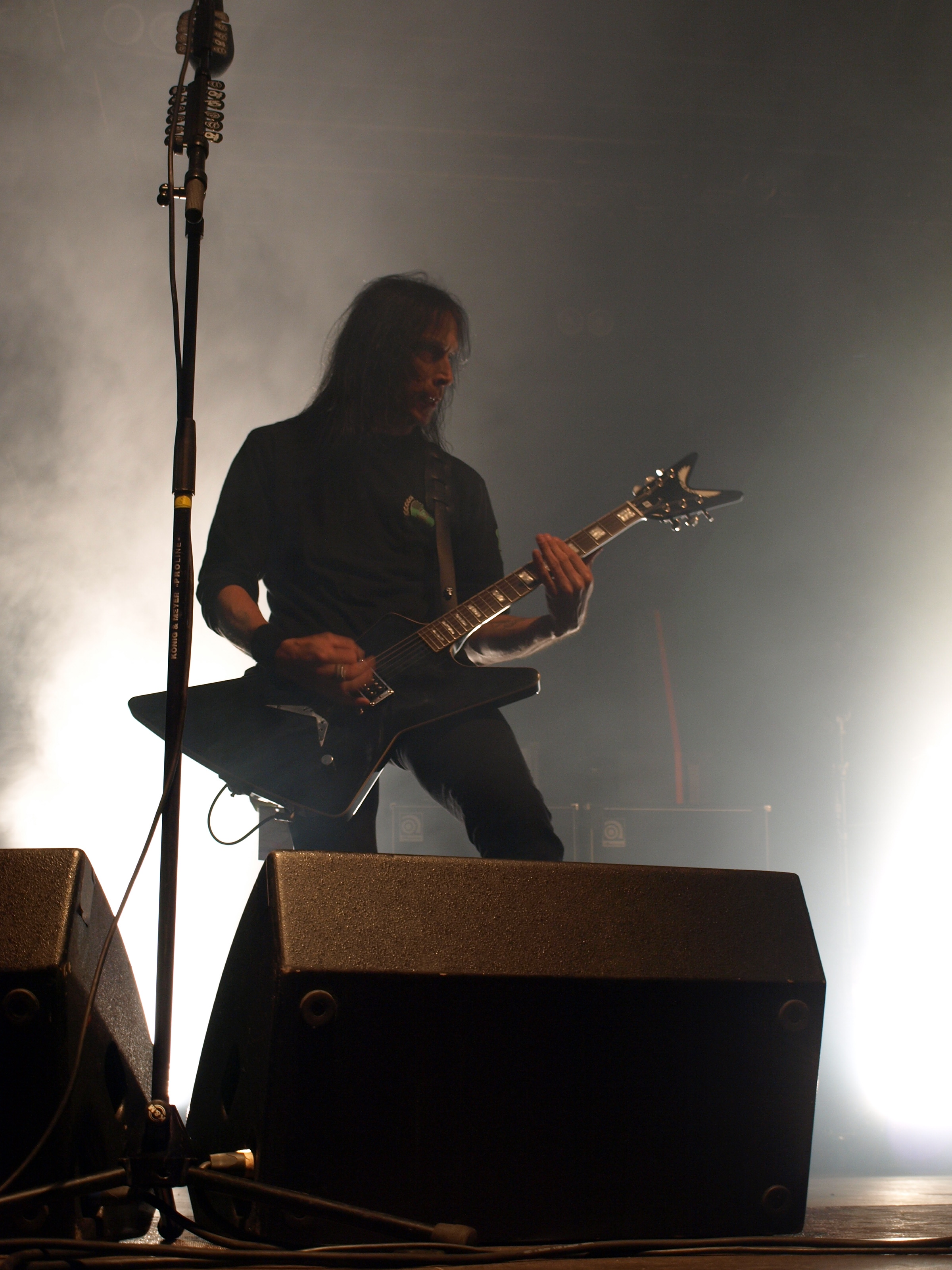 American thrash metal band Overkill live at Jalometalli 2008 in Oulu.